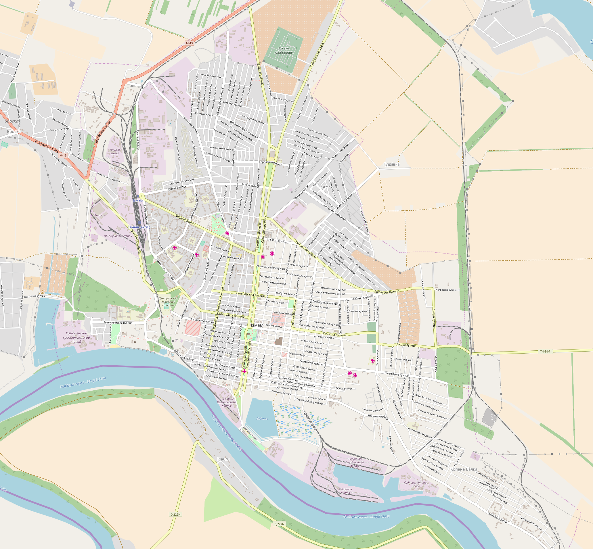 OpenStreetMap - Map of Izmail